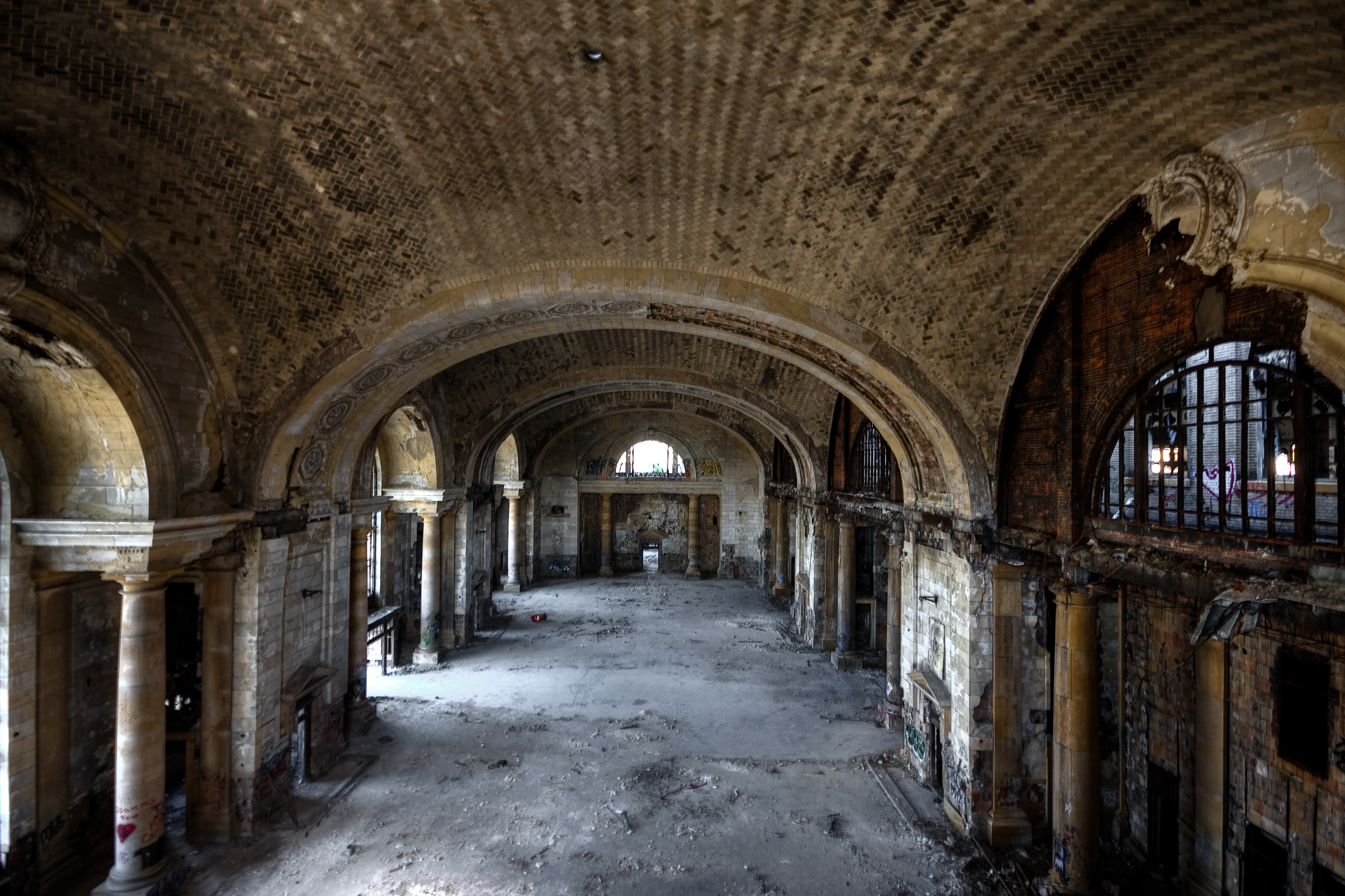 Interesting article on Michigan Central Station: A 6-minute video on 'MCS' bigger